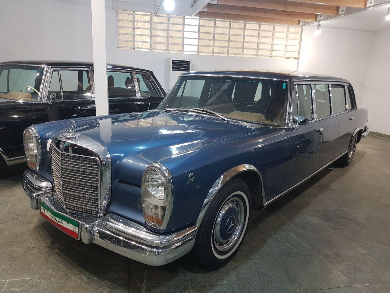 Mercedes-Benz 600 Pullman in Sa'dabad Complex's Royal Car Museum